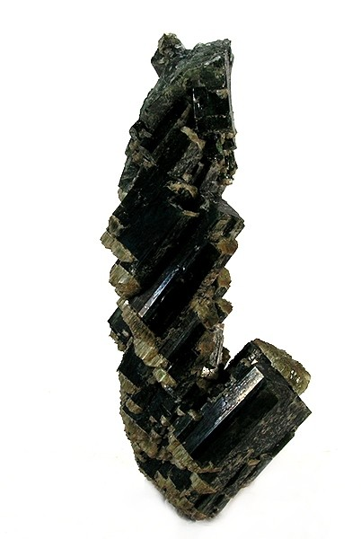 Pyroxene Locality: Nordmark, Filipstad, Värmland, Sweden (Locality at ) An elongated cluster of sharp lustrous crystals of this rock-forming mineral tha tis normally worthless....but here, we actually have a nice specimen! Sold by Dr. Krantz in the old days, to Fred Pough. Labels preserved with the specimen. This is complete all around and a great example from an old classic locality. 6.8 x 2.6 x 1.5 cm